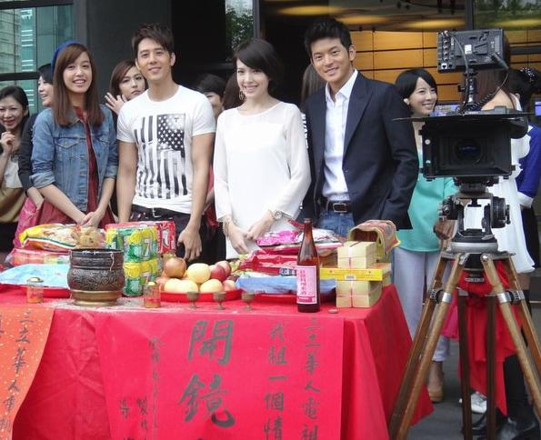 LN and LMOLM lens opening ceremony